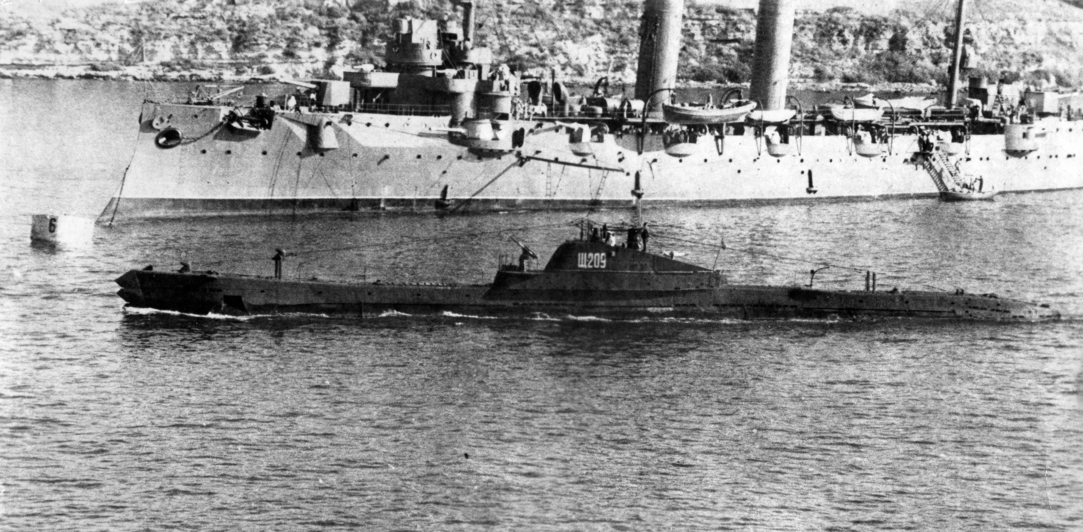 Soviet cruiser Komintern and submarine Shch-209.